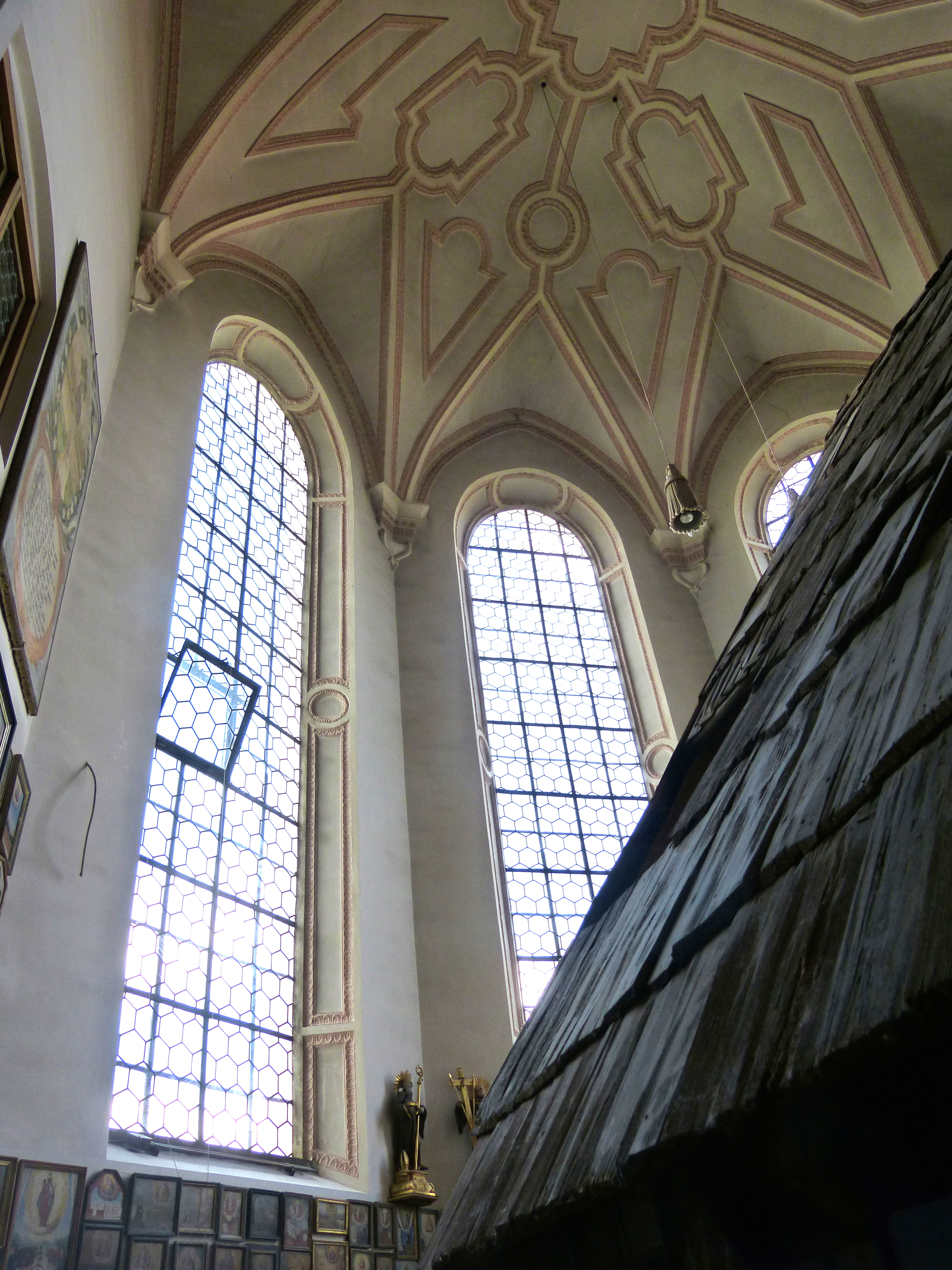 Sammarei ( Lower Bavaria ). Assumption of Mary church: Vaults above the wooden chapel.